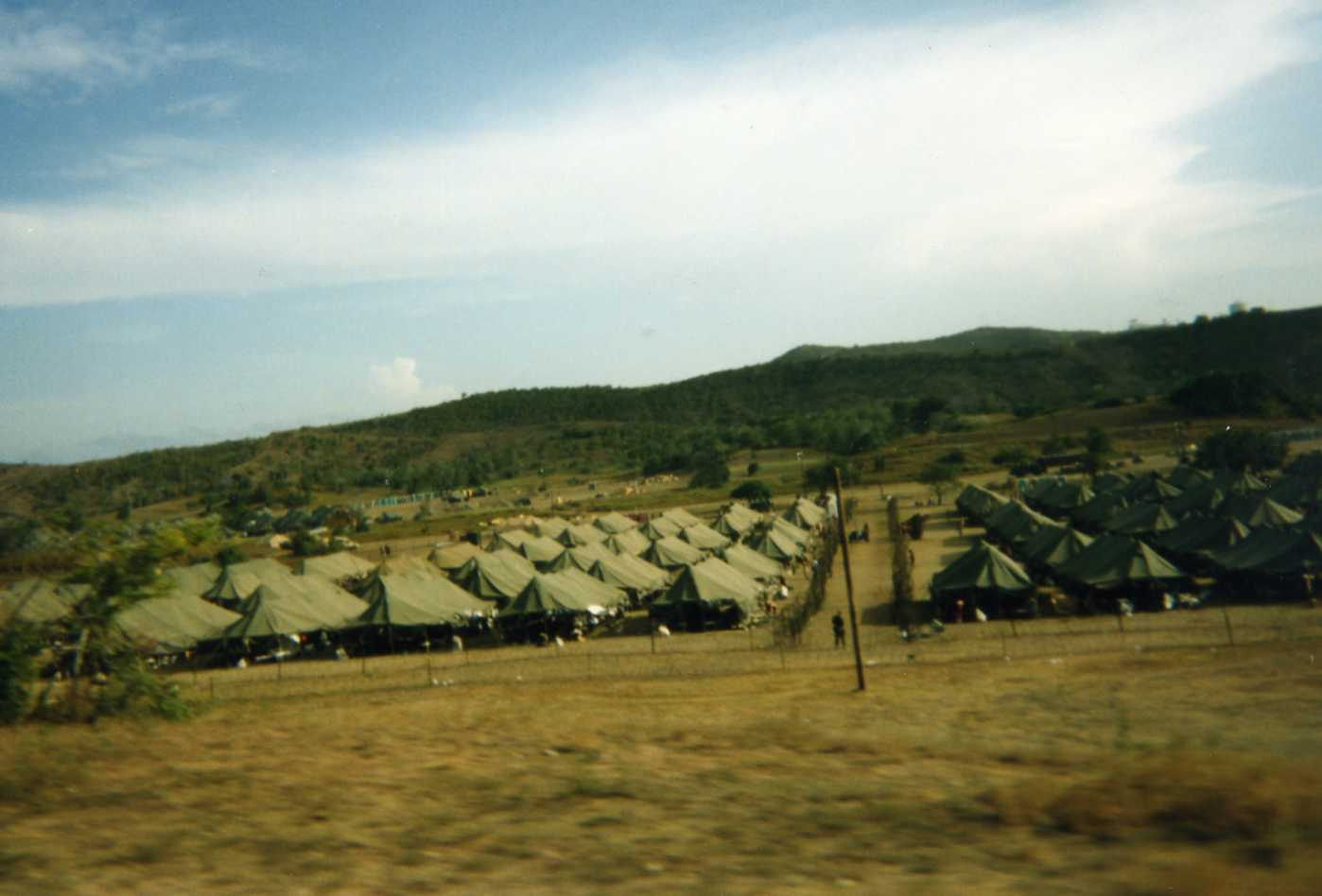 Joint Task Force 160-4